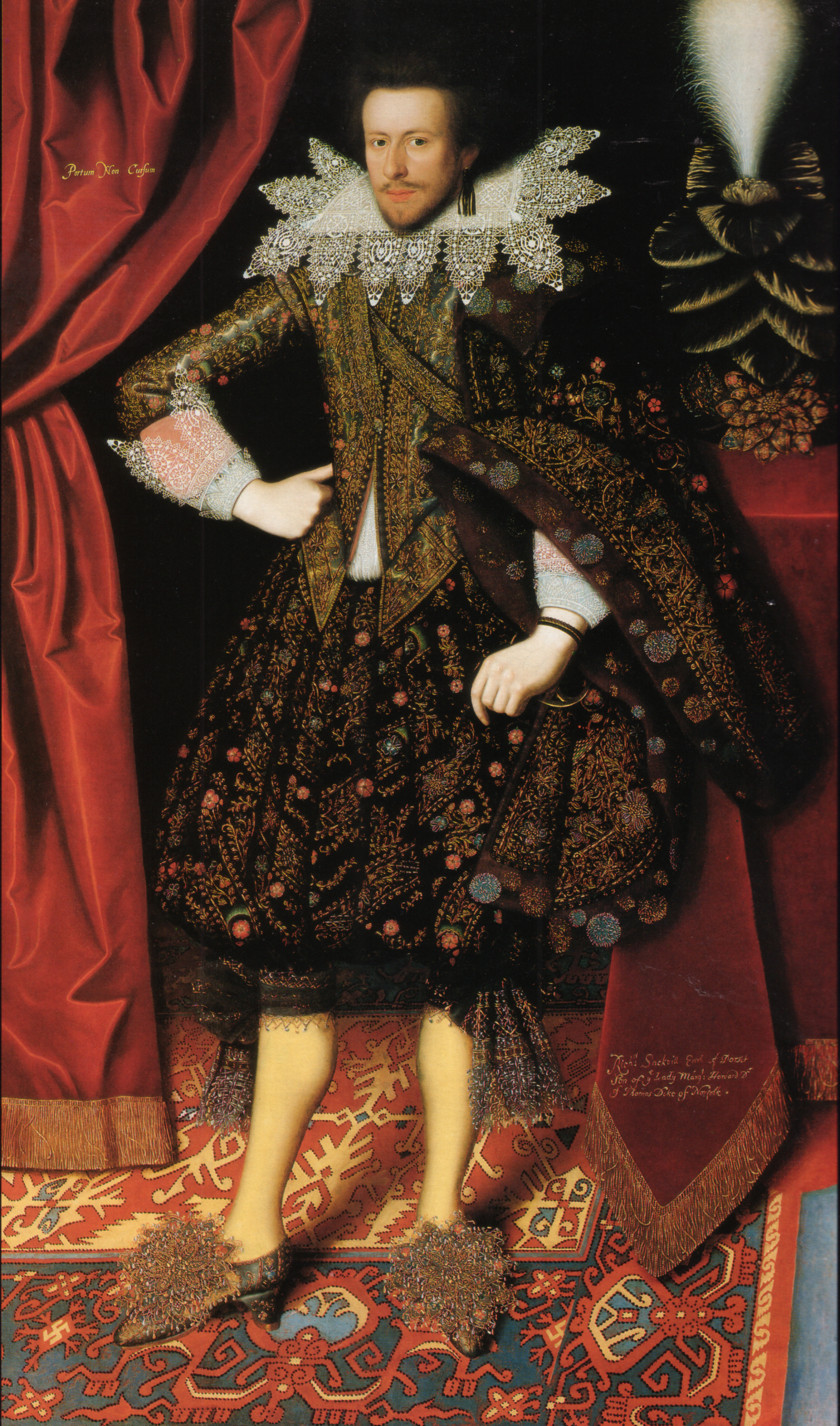 Edward Sackville, later 4th Earl of Dorset, Oil on canvas, 206.6 x 122.6 cm (81 1/4 x 48 1/4 in.); an inscription in a later hand misidentifies the sitter as Edwward Sackville's elder brother Richard